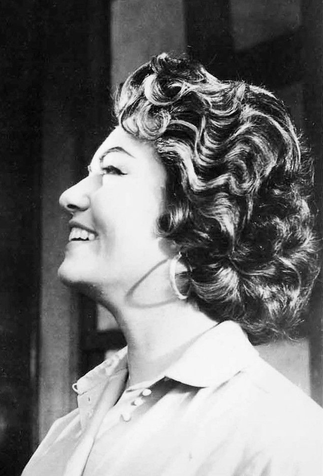 Cropped photo of singer and actress Rosa de Castilla from a lobby card for Bala de Plata en el pueblo maldito (1960).